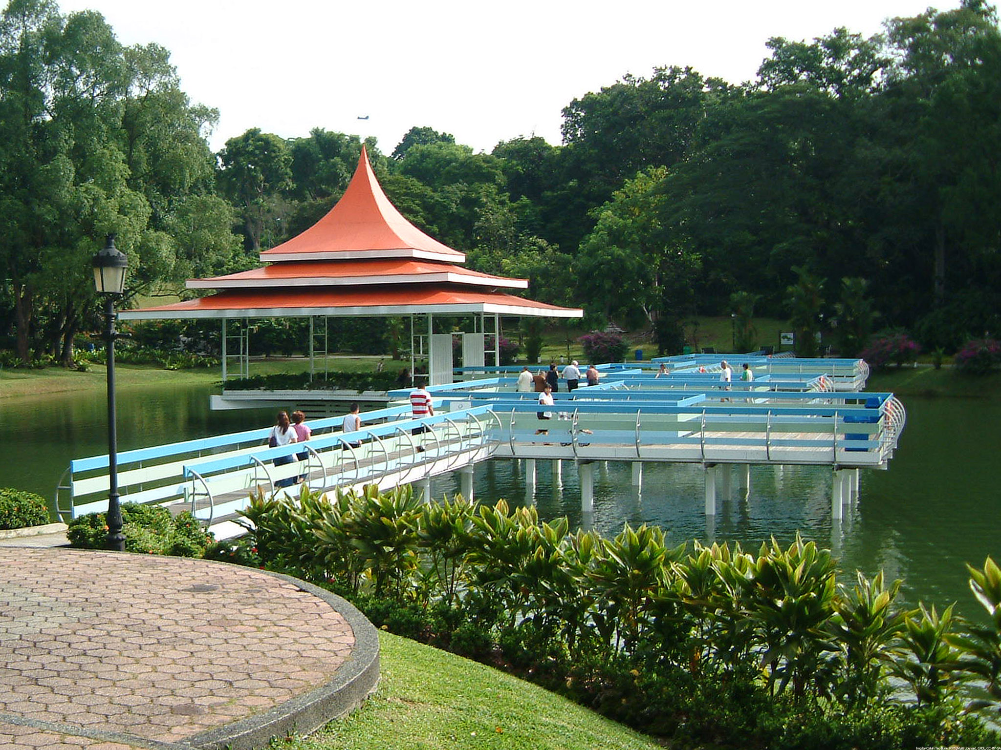 Scenic Broadwalk and Performing Pavilion in MatRitchie Reservoir Park, Singapore Img by Calvin Teo, June 2005